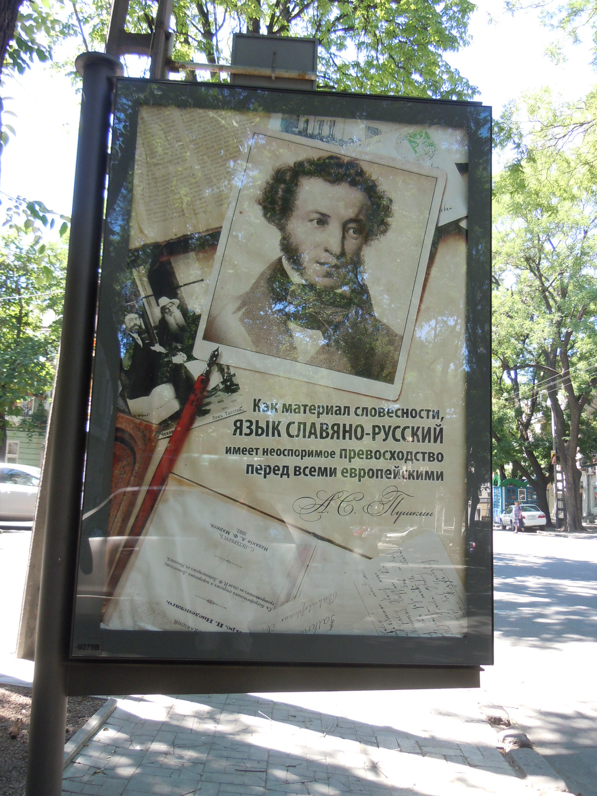 Russian Nazism propaganda in Odesa, Ukraine. The writing on the poster (in Russian): "In the matter of literature, Slavic-Russian language has indisputably supremacy to all European languages"